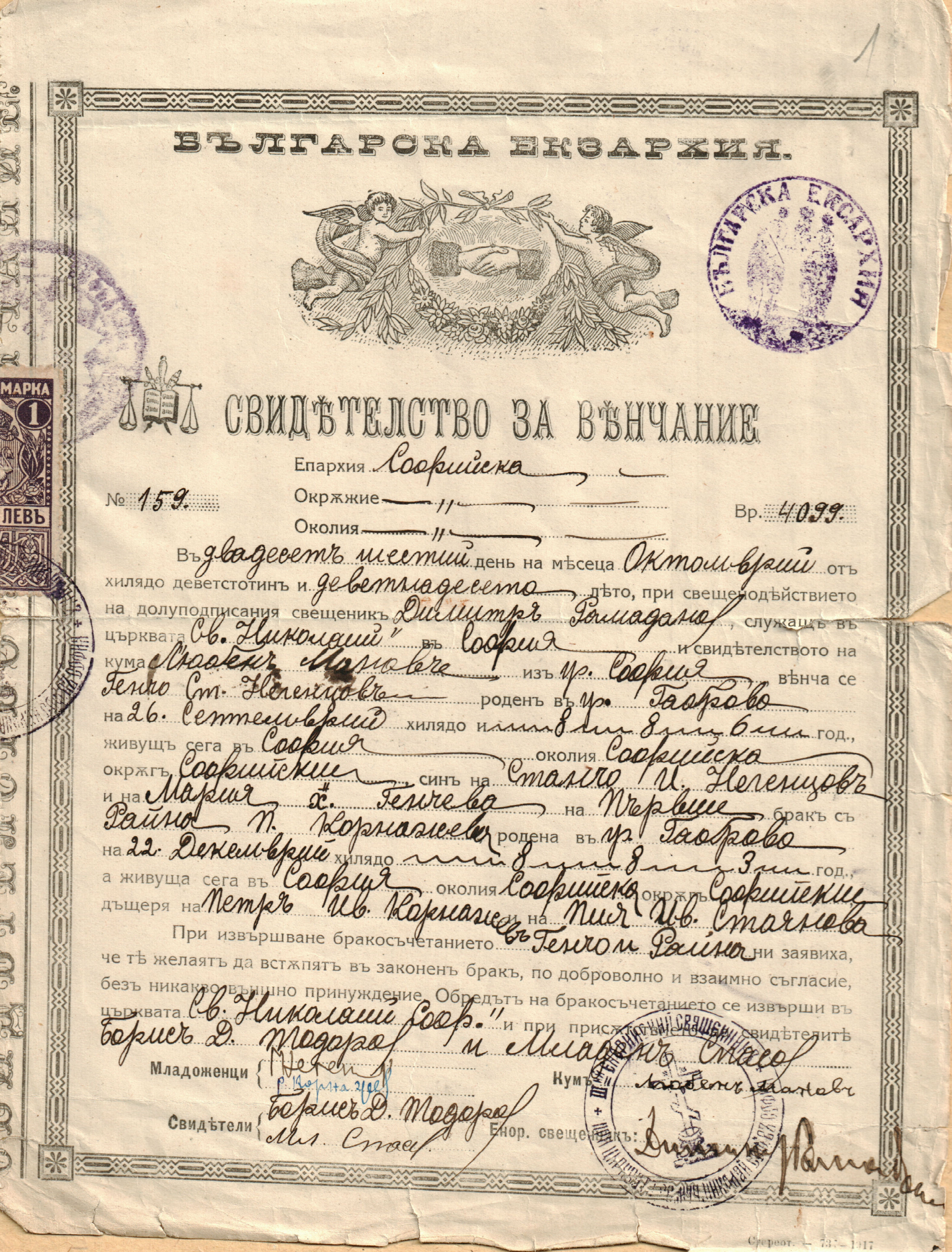 Certificate for marriage Ran Basil and Raina Karnasheva (Negentsova).